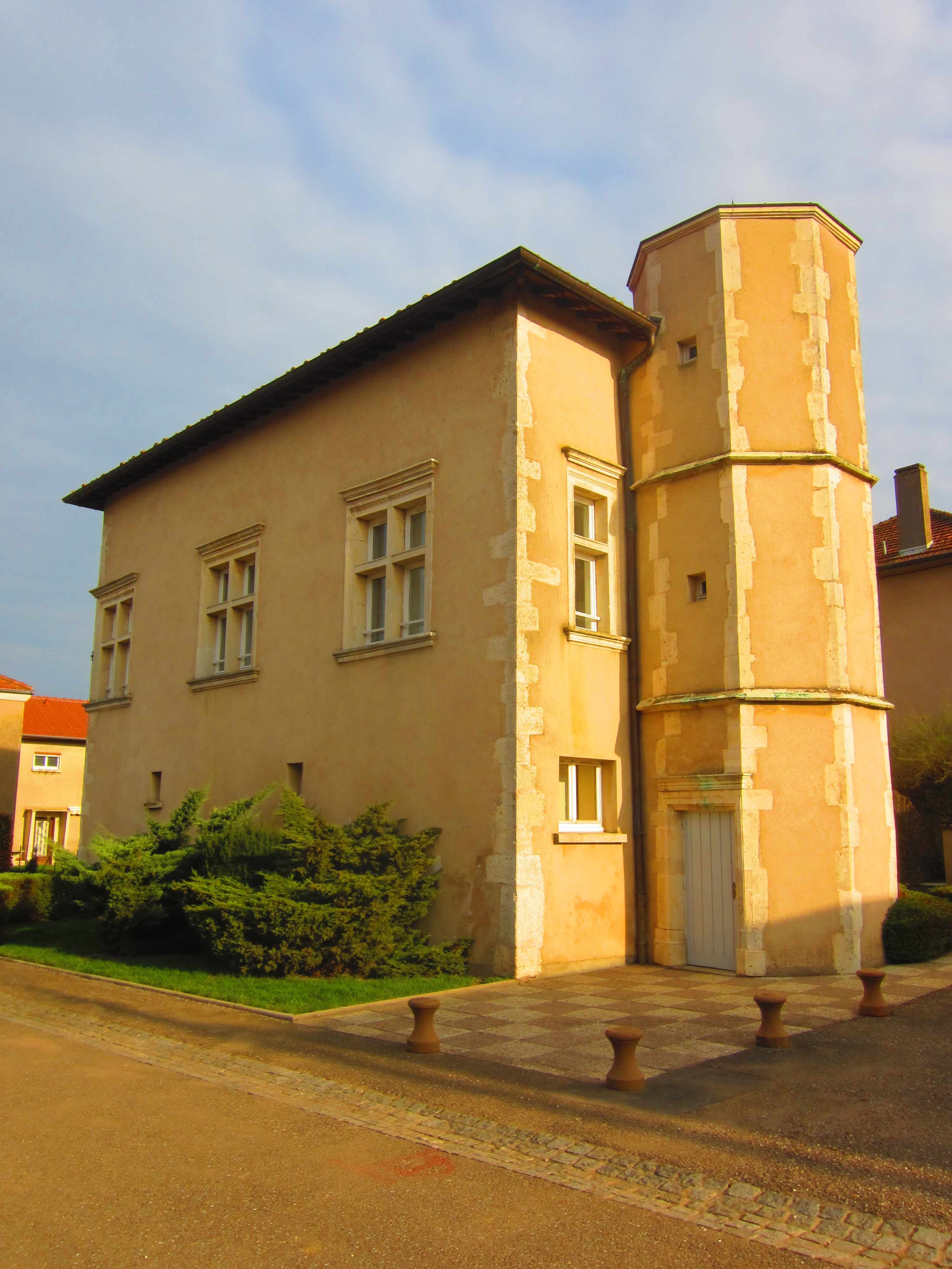 Cheminot town council